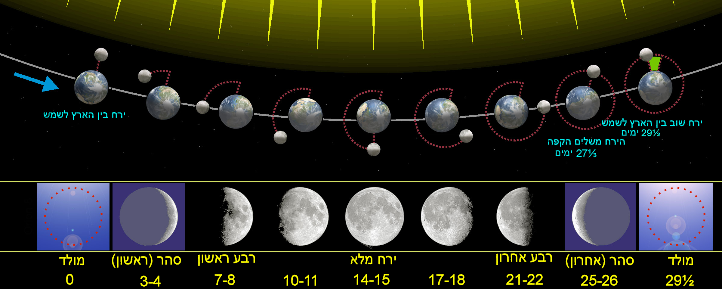 phases of the moon, including Note the difference between the monthly series Synod month